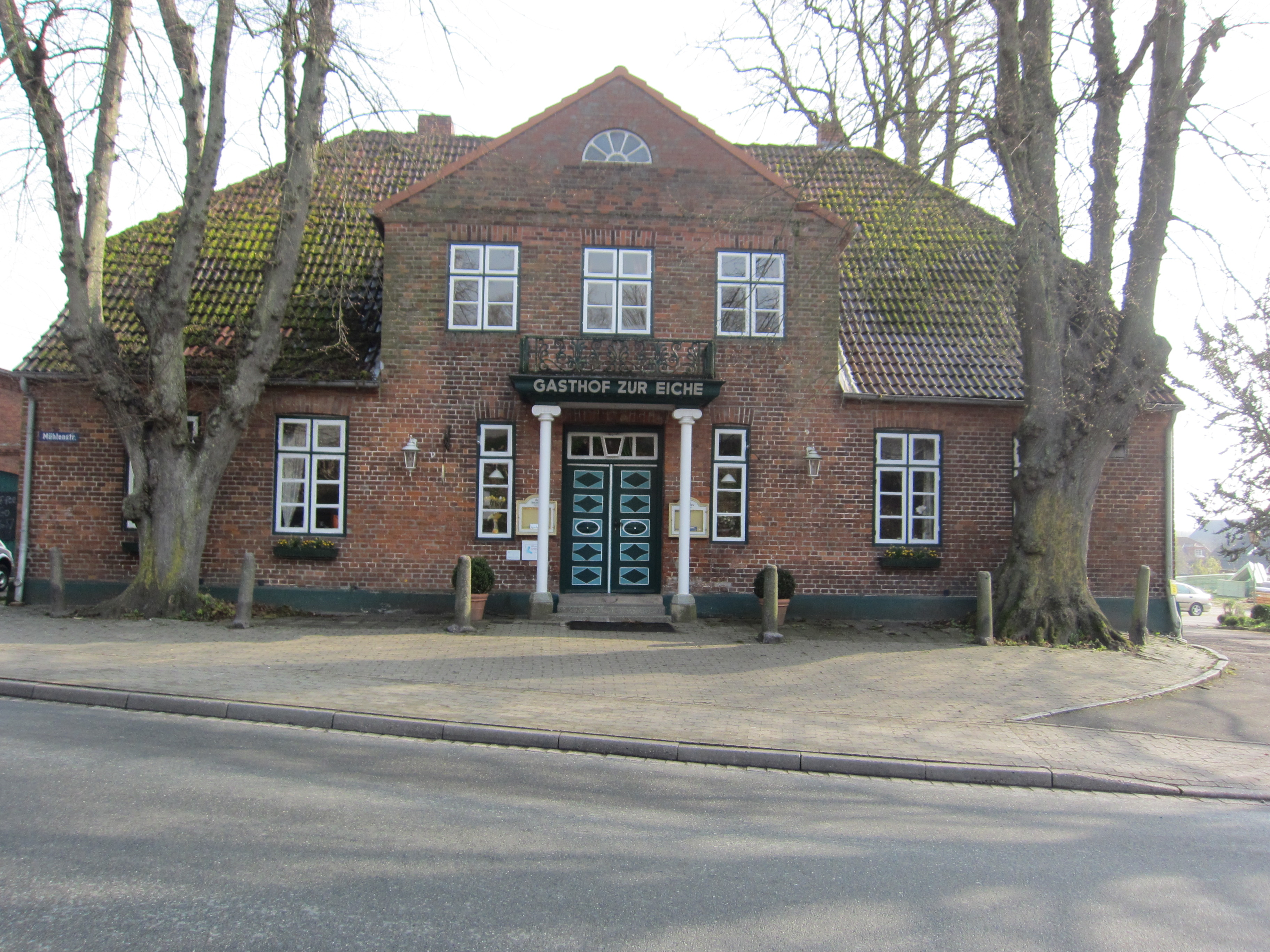 Inn "Zur Eiche" in Dänischenhagen